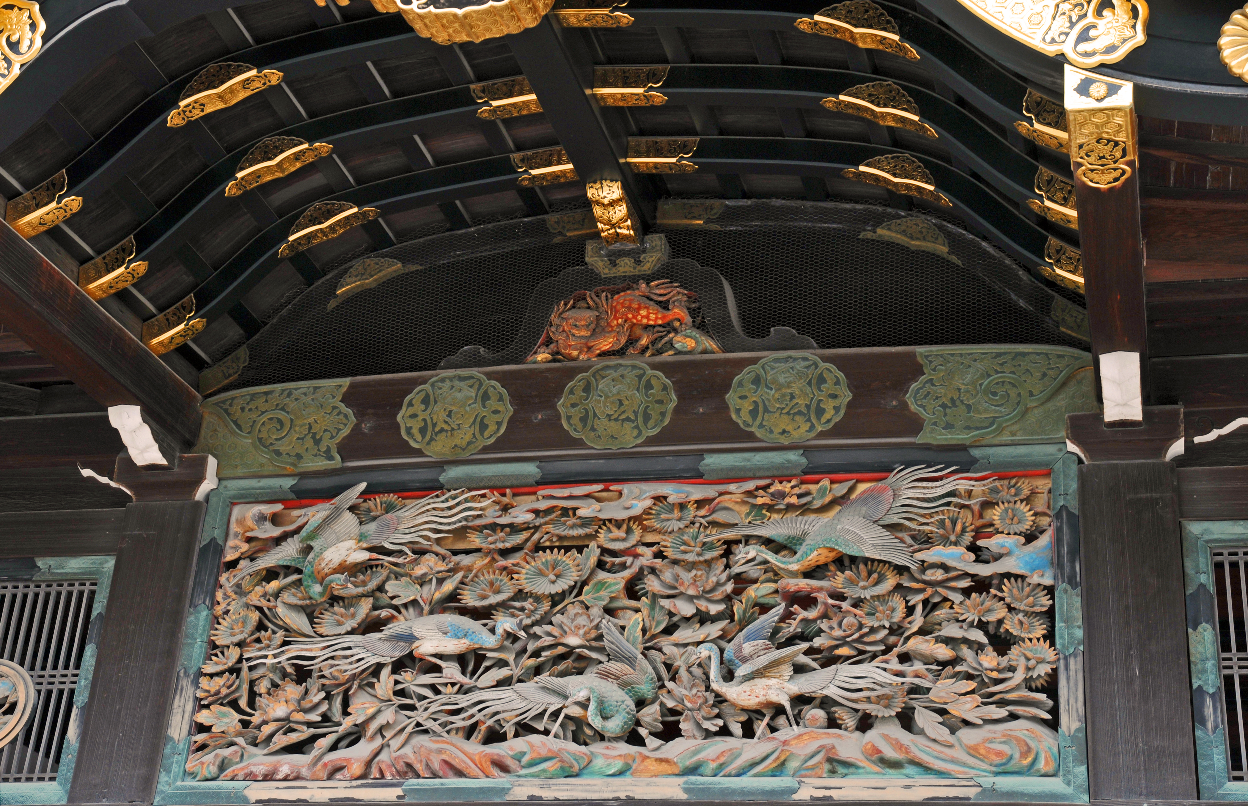 carvings of the Ninomaru palace enterance, Nijō-jō